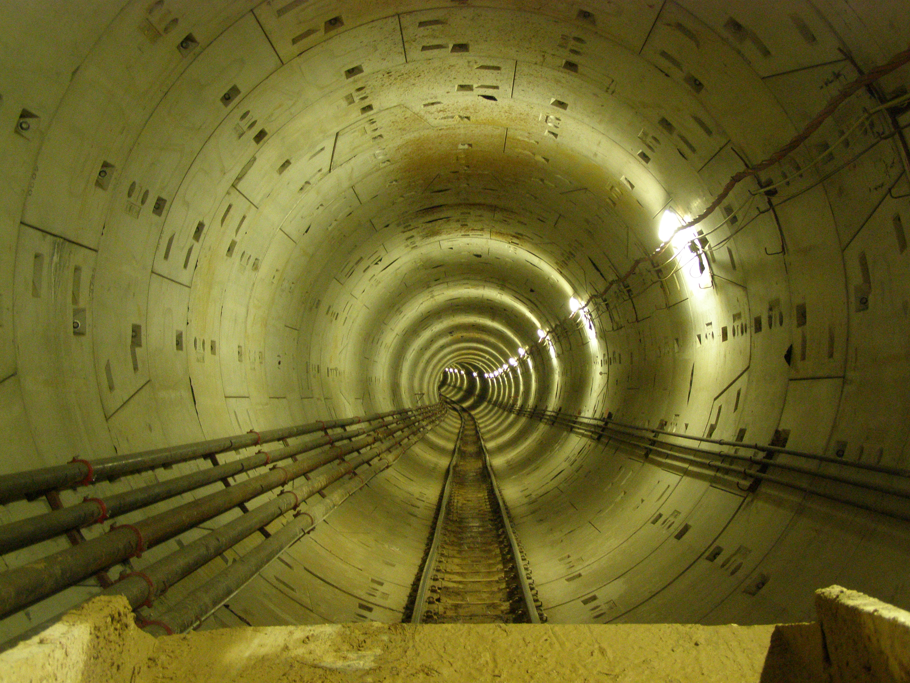 Tunnel of Thessaloniki's Metro.